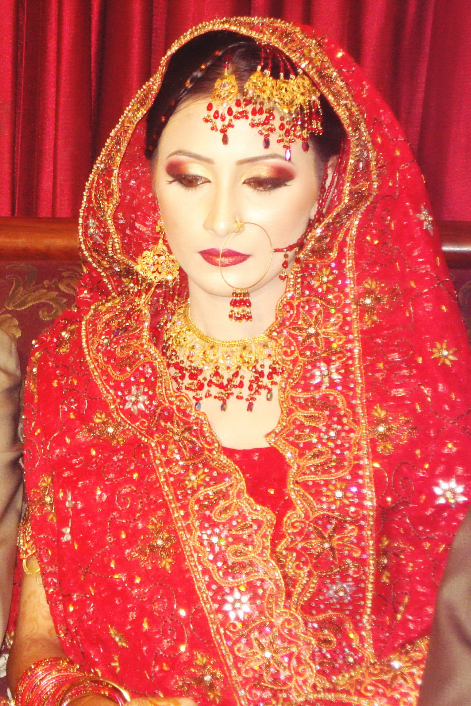 a Bride in Punjab Pakistan